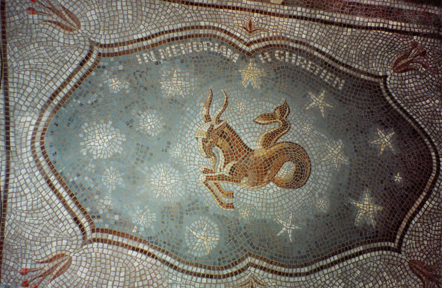 Mosaic on the floor of the Villa Paradou, created by Rainer Marie Latzke in commemoration of Henri Chrétien. Saint-Jean-Cap-Ferrat, France.